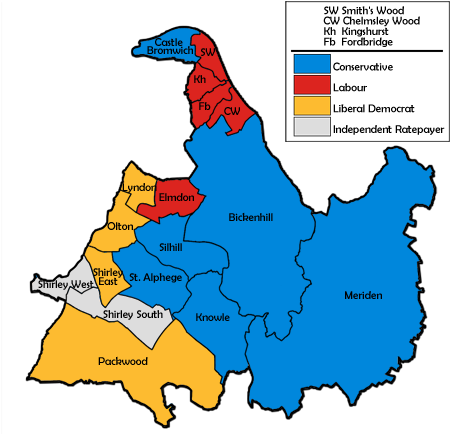 Ward map of Solihull Council with political colouring for the 1995 election.